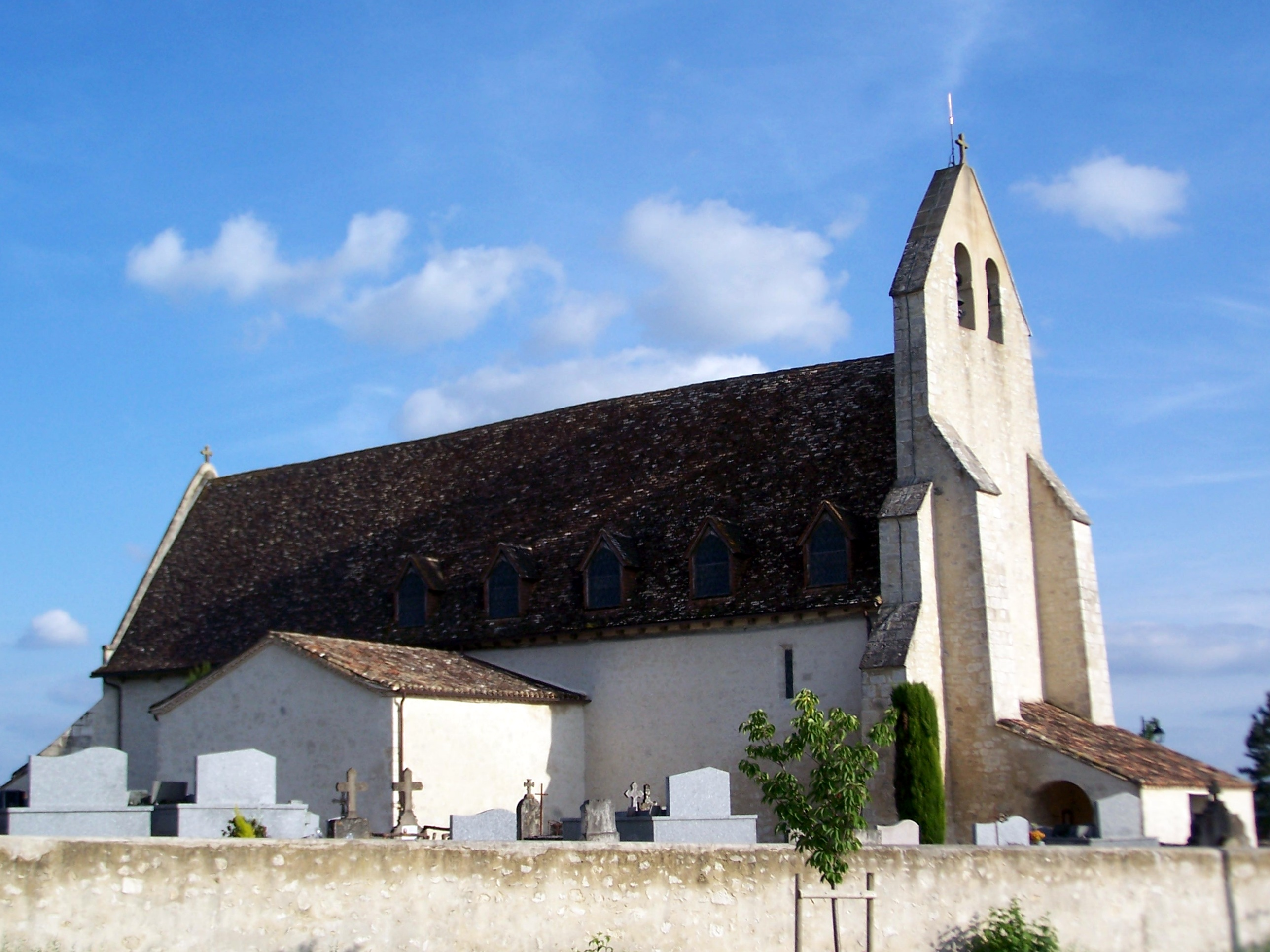 Saint Peter church of Mauvezin-sur-Gupie (Lot-et-Garonne, France)